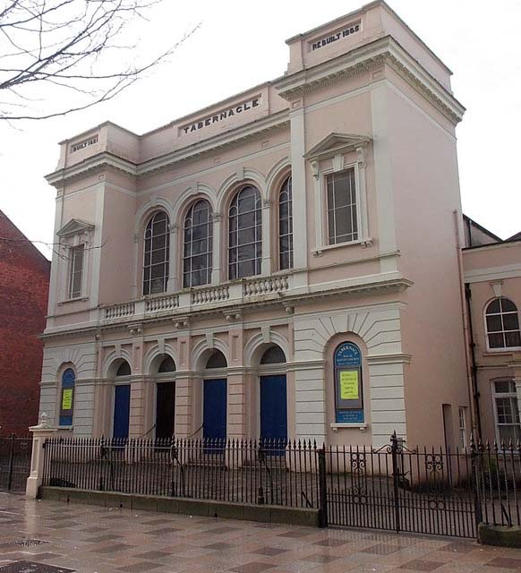 Tabernacle (Y Tabernacl) Baptist Chapel, The Hayes, Cardiff, a Grade II* listed building with an Italianate facade.